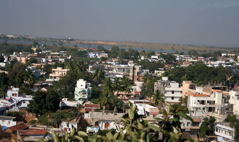 A view from Bhongir Fort, Andhra Pradesh, India.